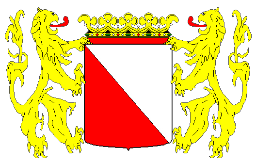 Arms of the city of Utrecht